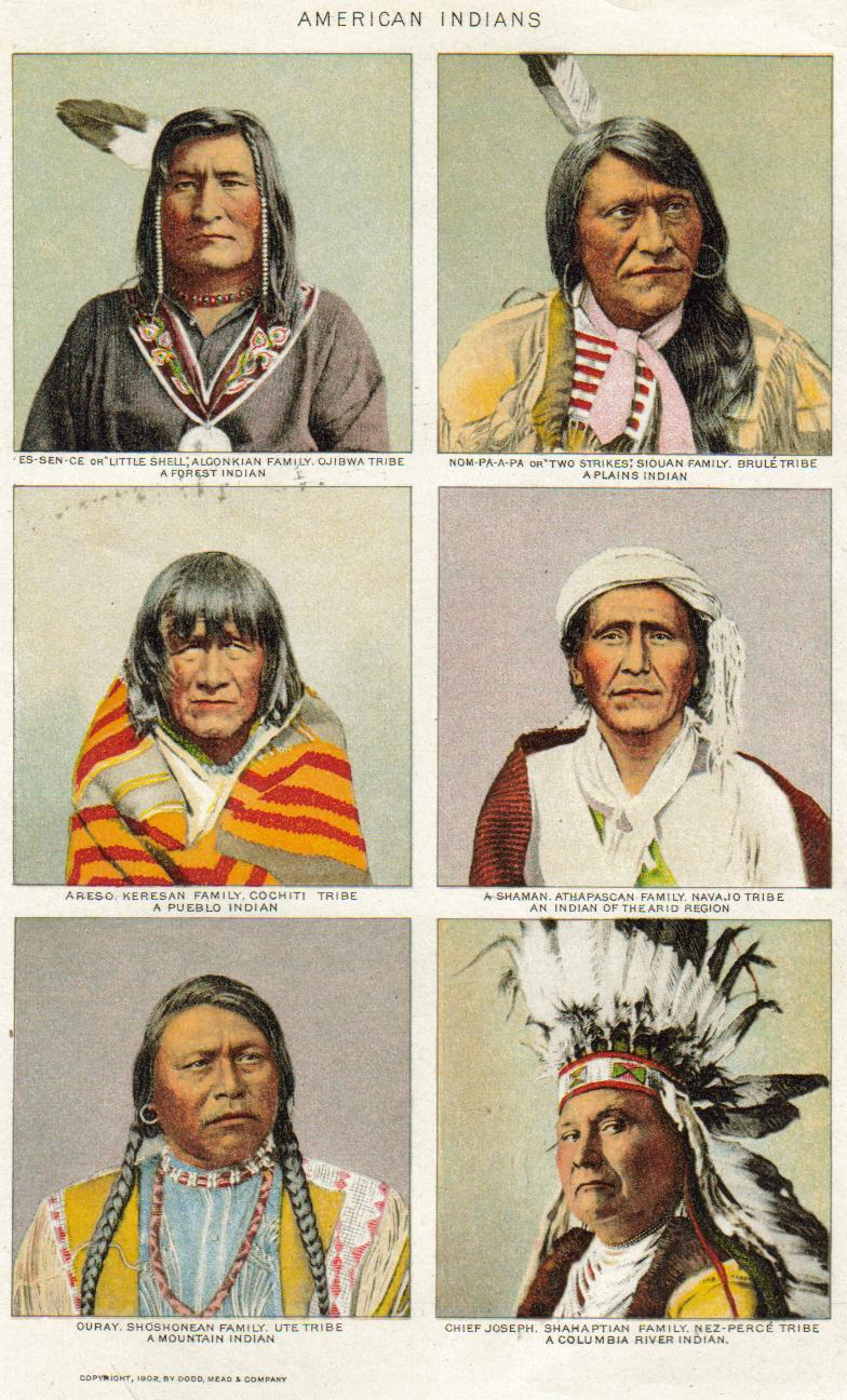 Painting of American Indians